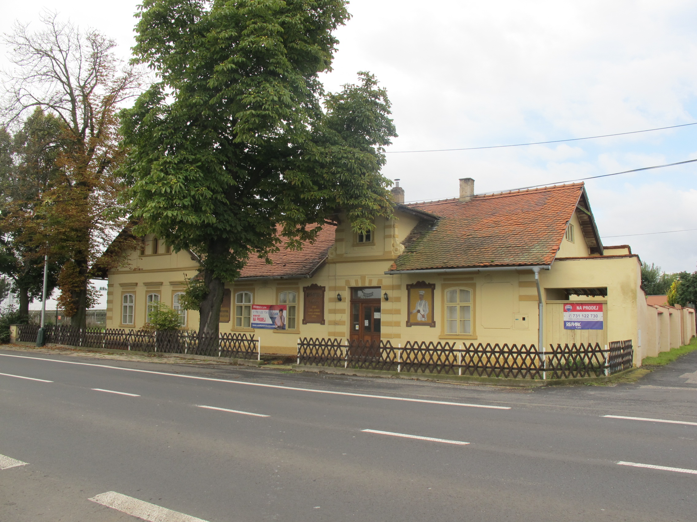 Former inn in Velichov